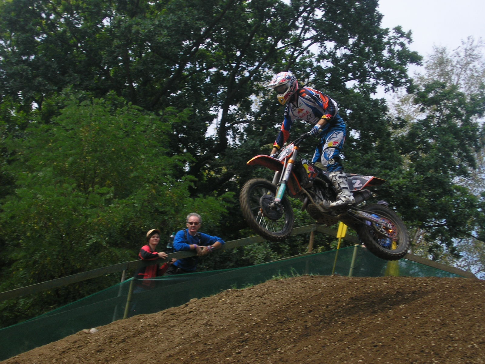 My picture